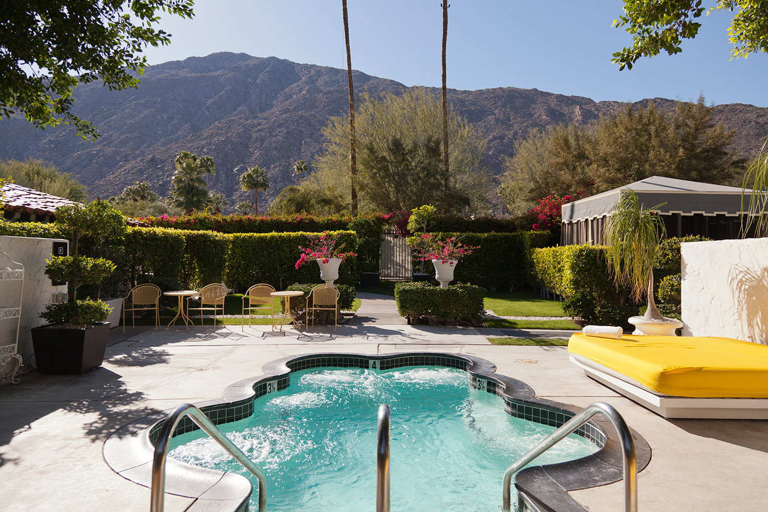 Palm Springs is a desert resort city bordered by the San Jacinto Mountains (pictured)